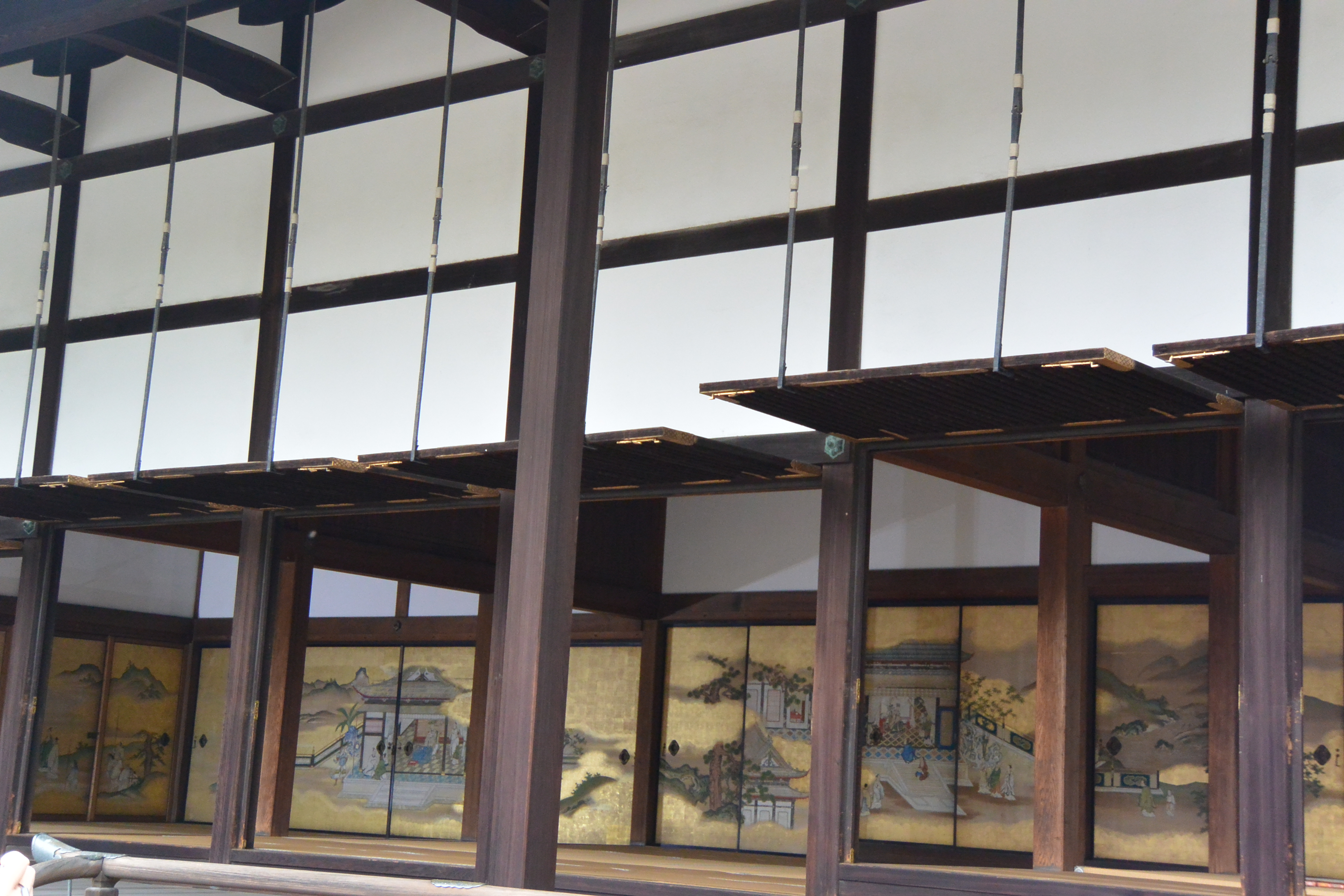 Japanese traditional door at Kyoto Place